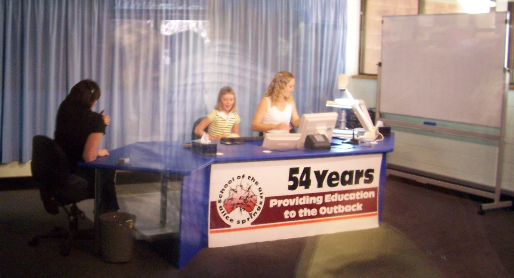 Studio der School of the Air in Alice Springs